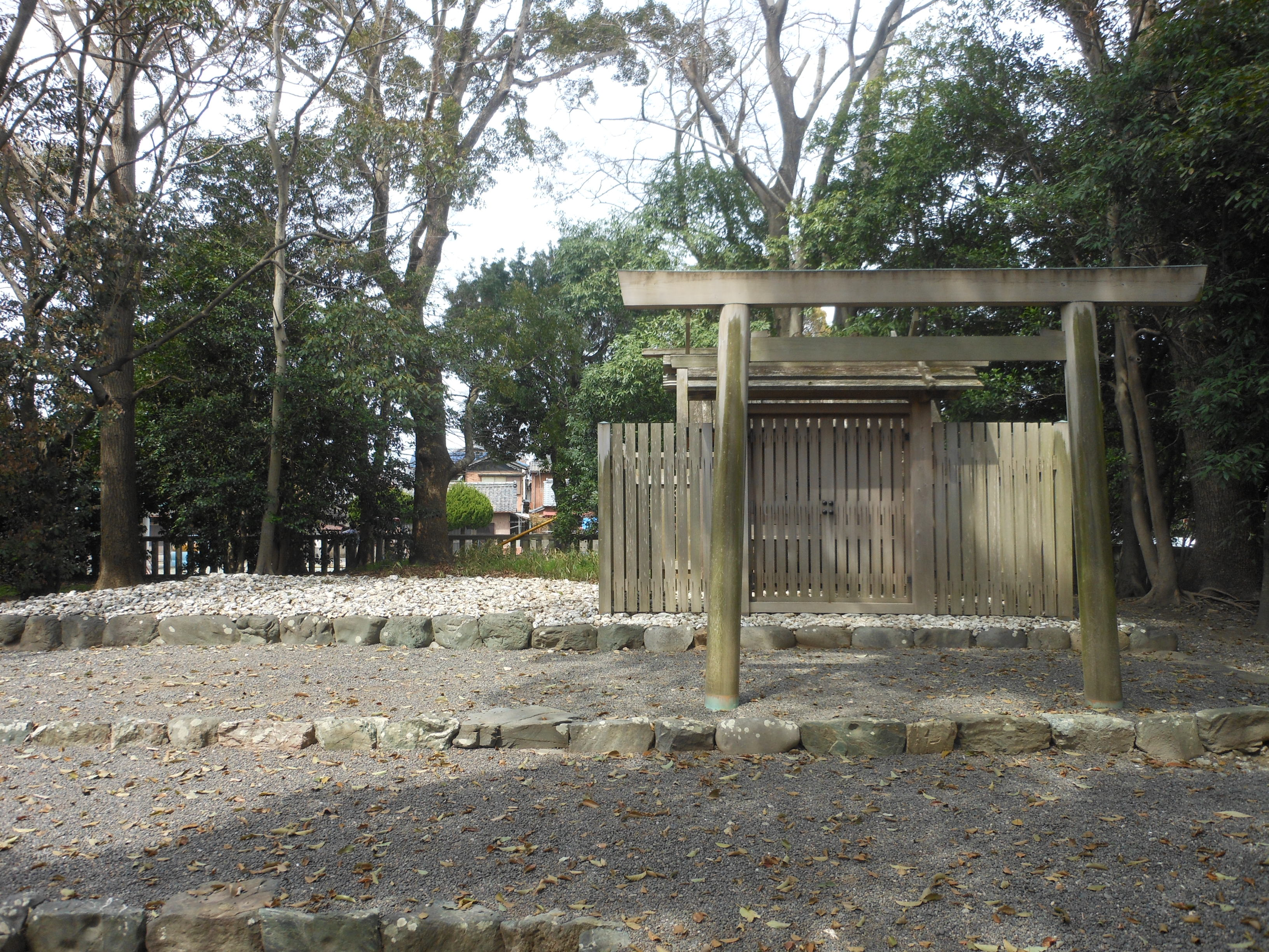 This is a shrine in Ise, Mie, Japan.